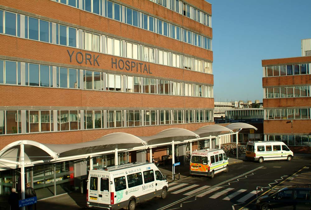 York Hospital Front entrance